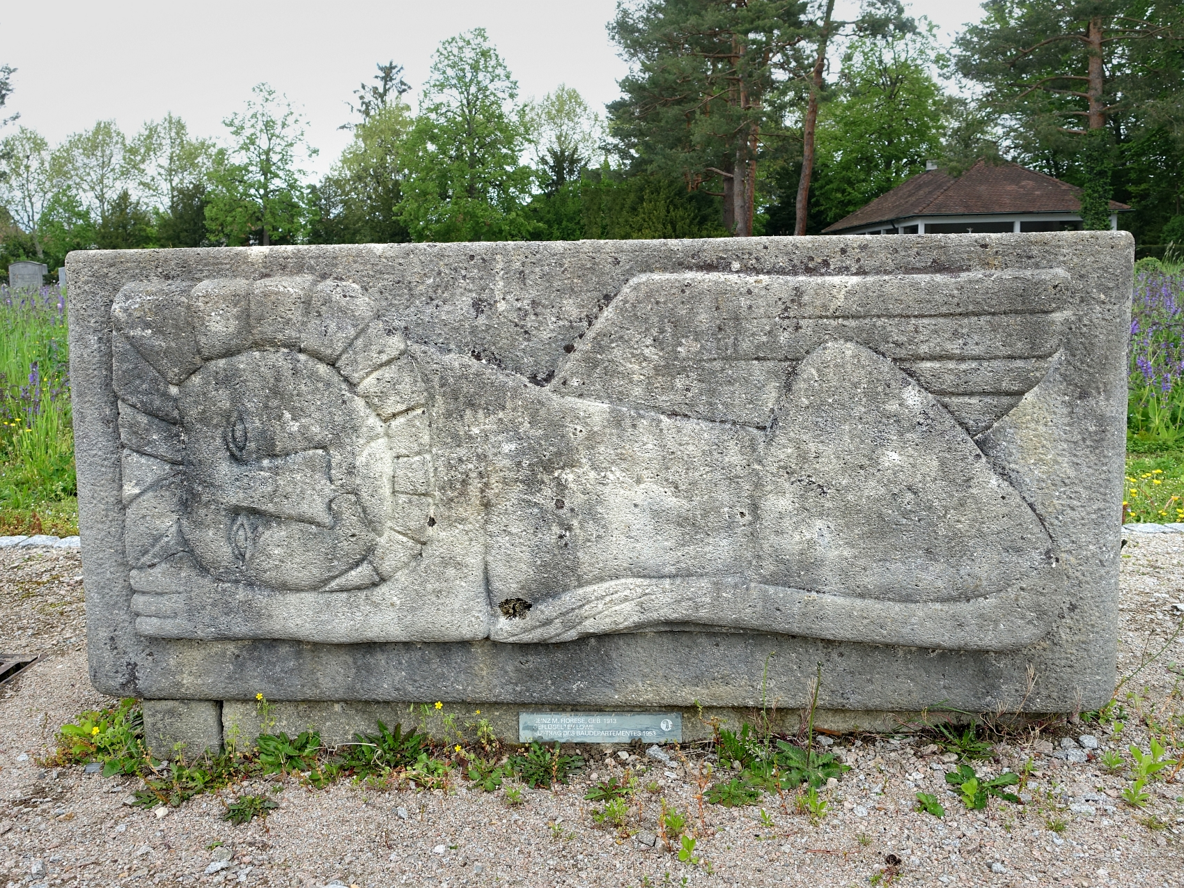 Heinz Marco Fiorese (1913-1992) Bildhauer, Maler, Grafiker, Friedhof am Hörnli, Basel, Schweiz